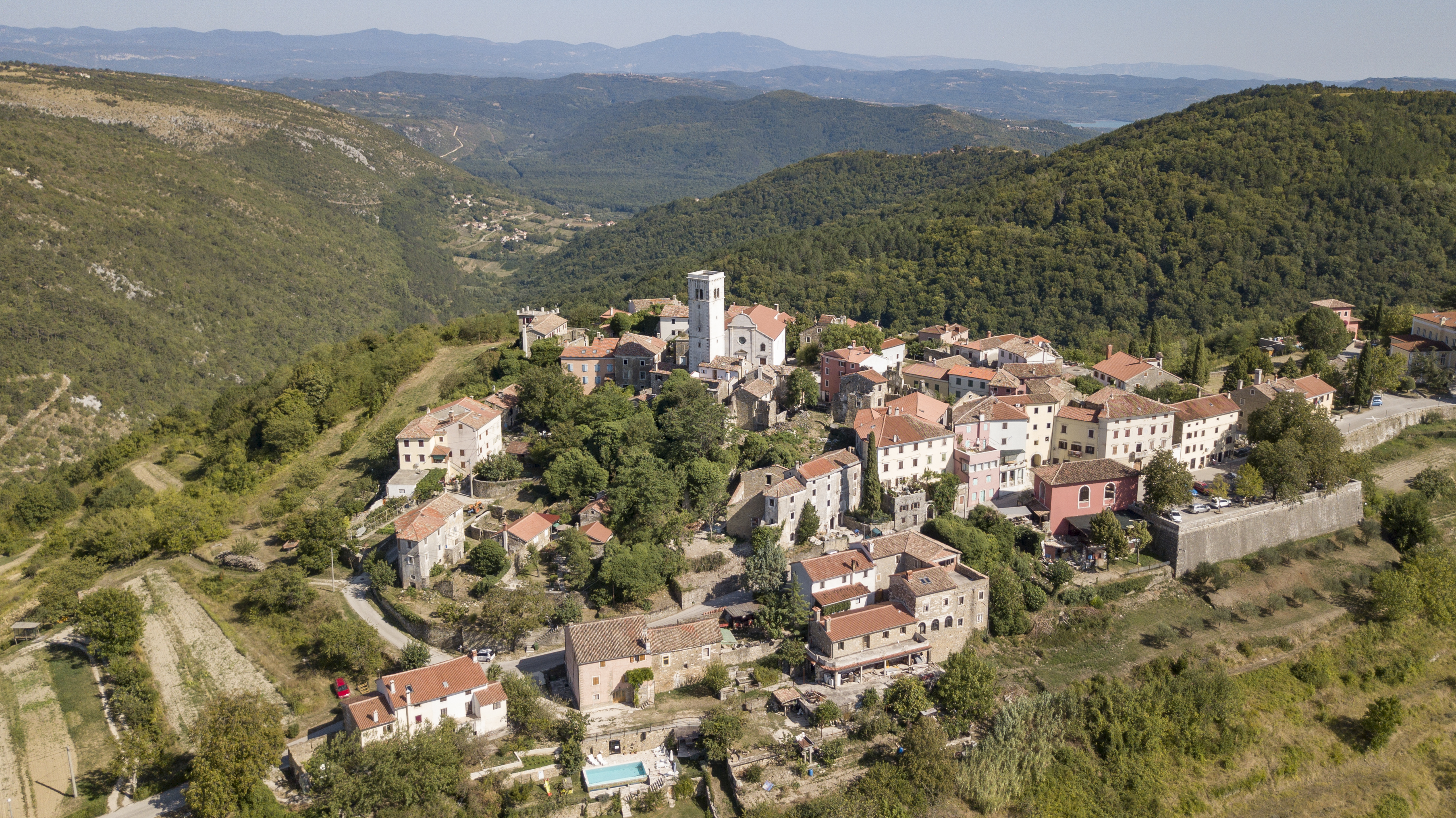 Aerial view of Oprtalj, Croatia